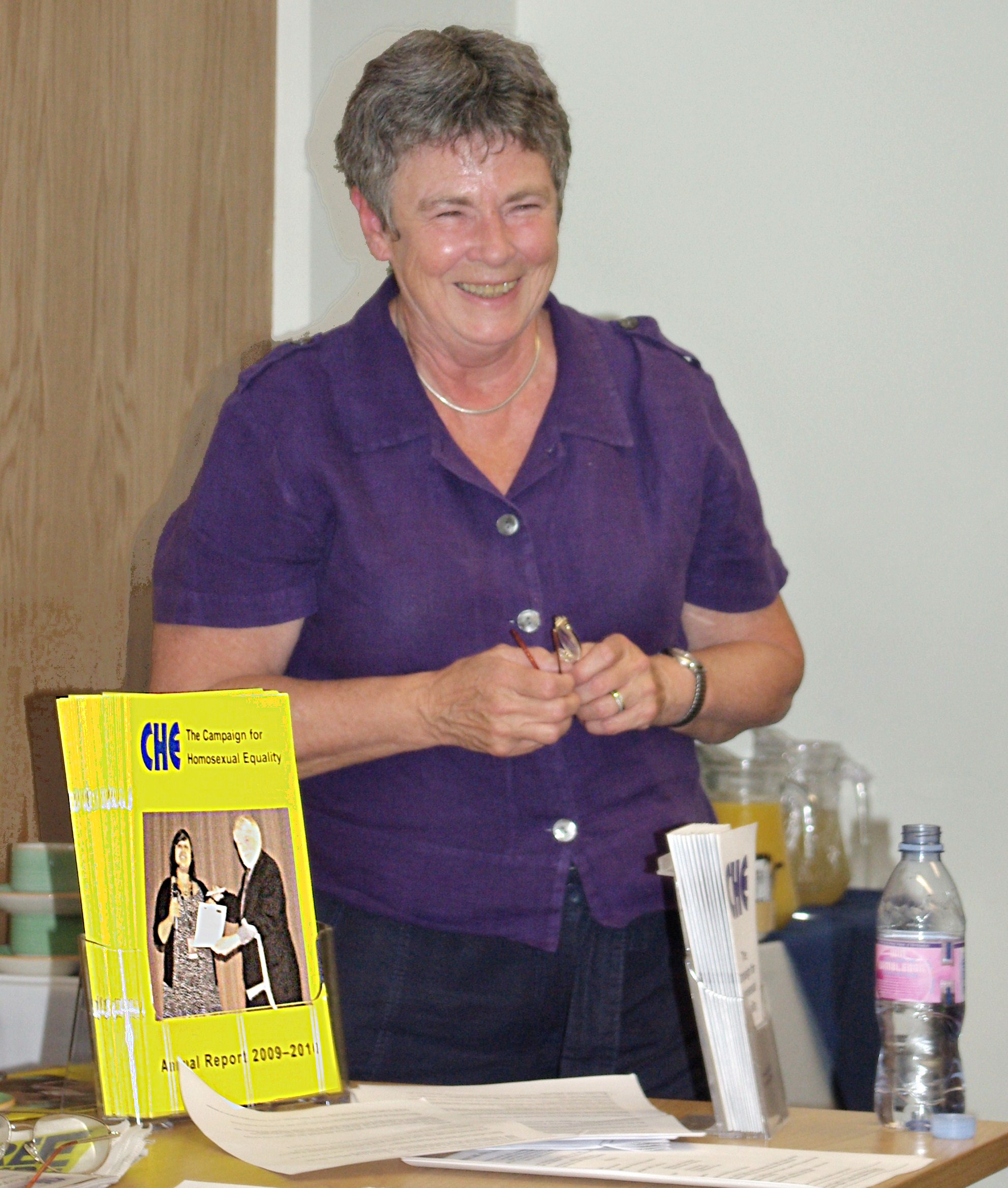 Angela Mason, British LGBT Activist, former director of Stonewall, the gay rights lobbying organisation.